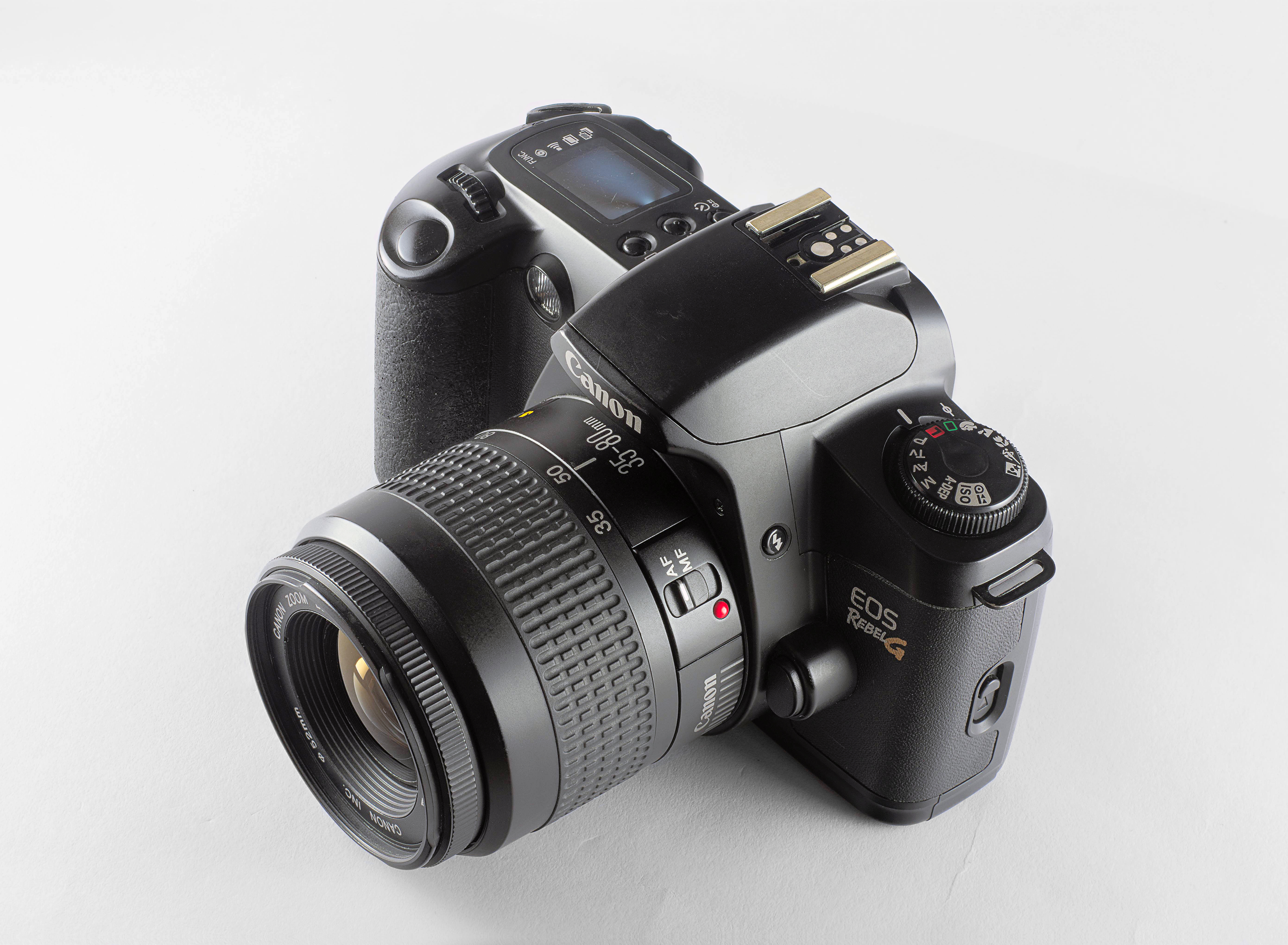 Camera Canon EOS Rebel G (USA market name) or Canon EOS 500 N (Europe market name)